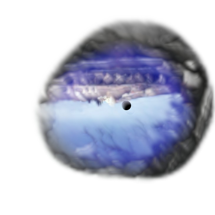 Simulation of image recorded by receptors on retina of human left eye. Only small spot smaller than 1° is in focus; whole image is blurred by saccades and moving head.